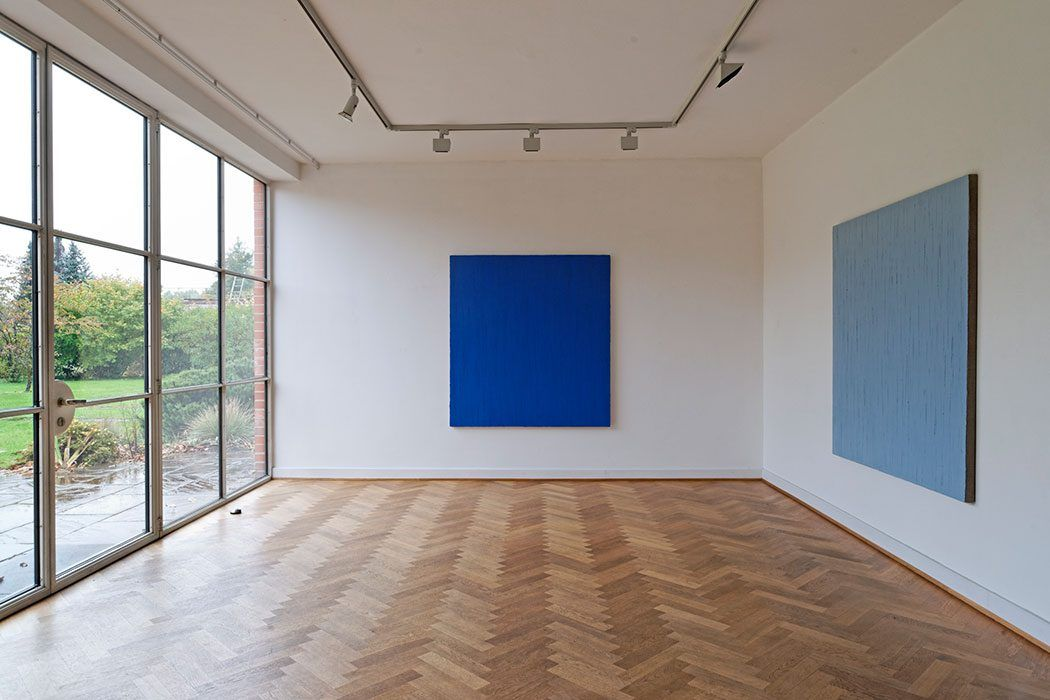 Picture of Christiane Conrad's works on the occasion of her exhibition at the Mies van der Rohe Haus (Haus Lemke), Berlin, 2010